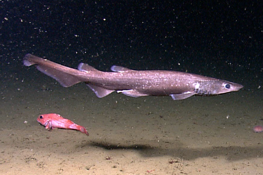 Brown catshark (Apristurus brunneus) cruising close to the bottom over a shortspine thornyhead (Sebastolobus alascanus)